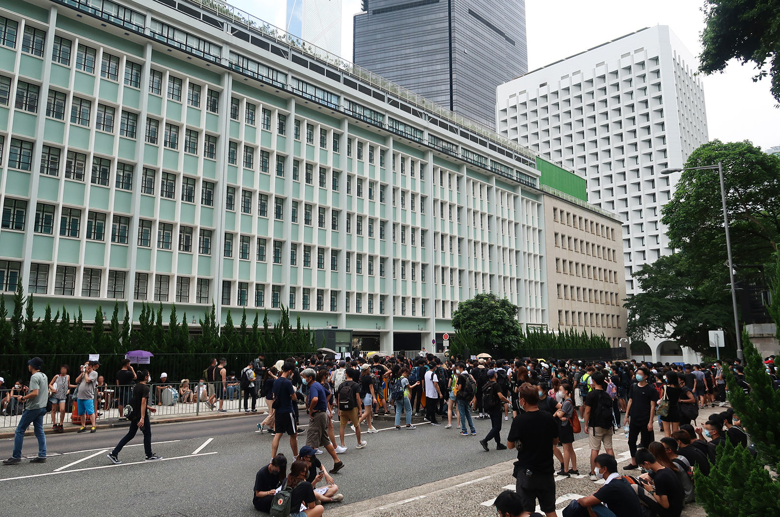 Protesters stay at Justice Place